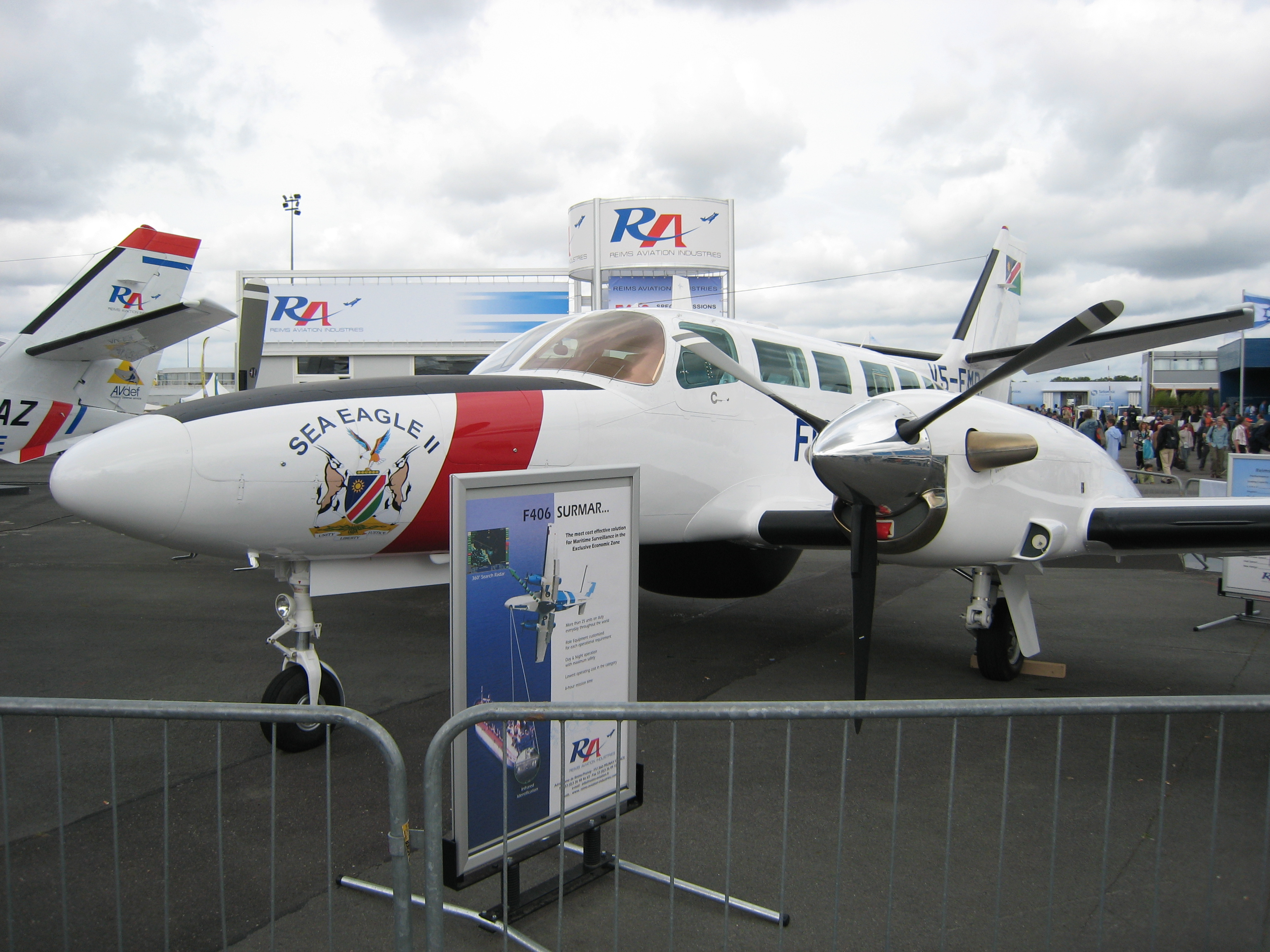 Reims aviation F 406 Surmar of the Namibian Ministry of Fisheries and Marine Resources at Paris Air Show 2007